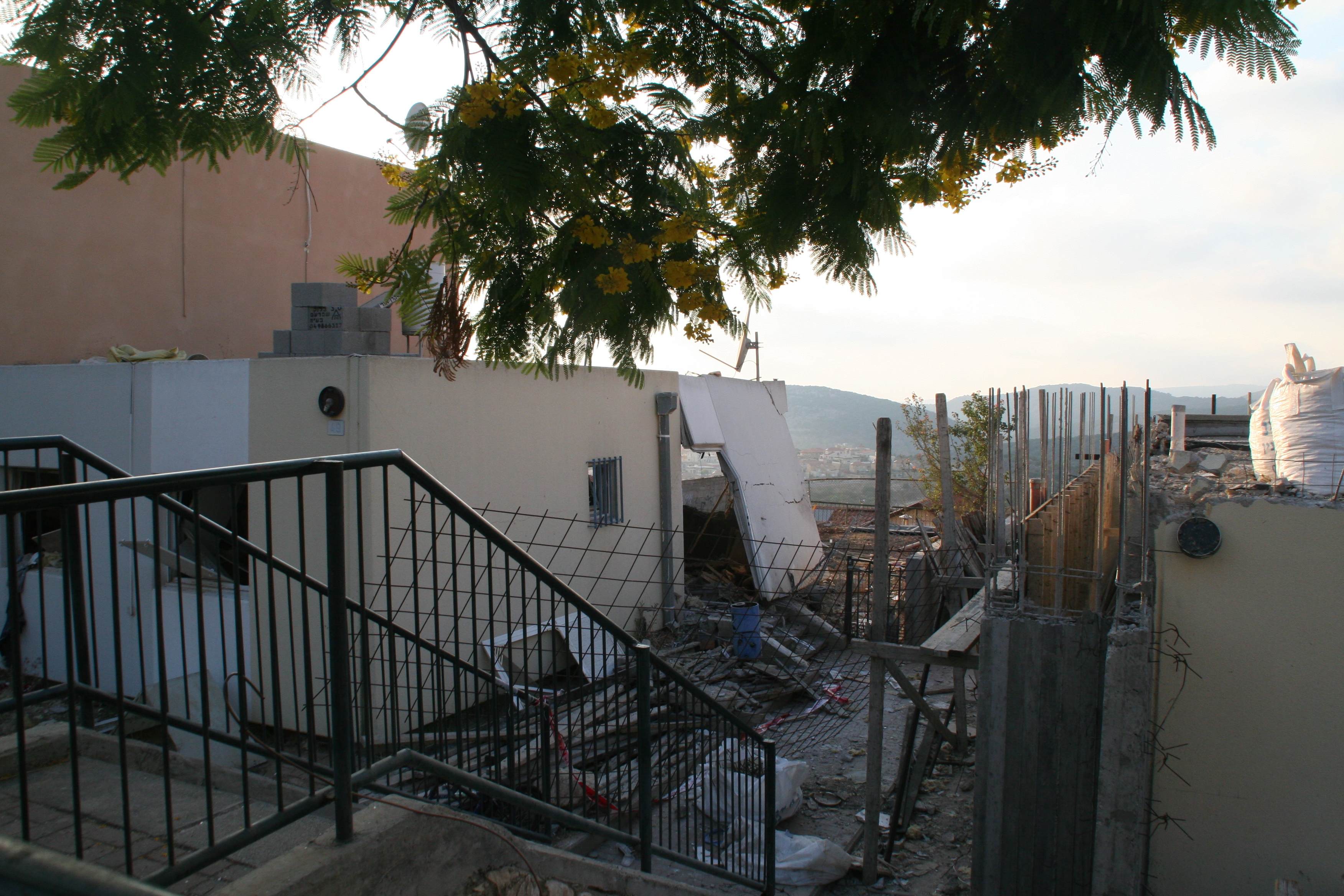 A house in Ma'alot-Tarshiha, Israel after a direct hit from a Katyusha rocket during the 2006 Israel-Lebanon conflict.